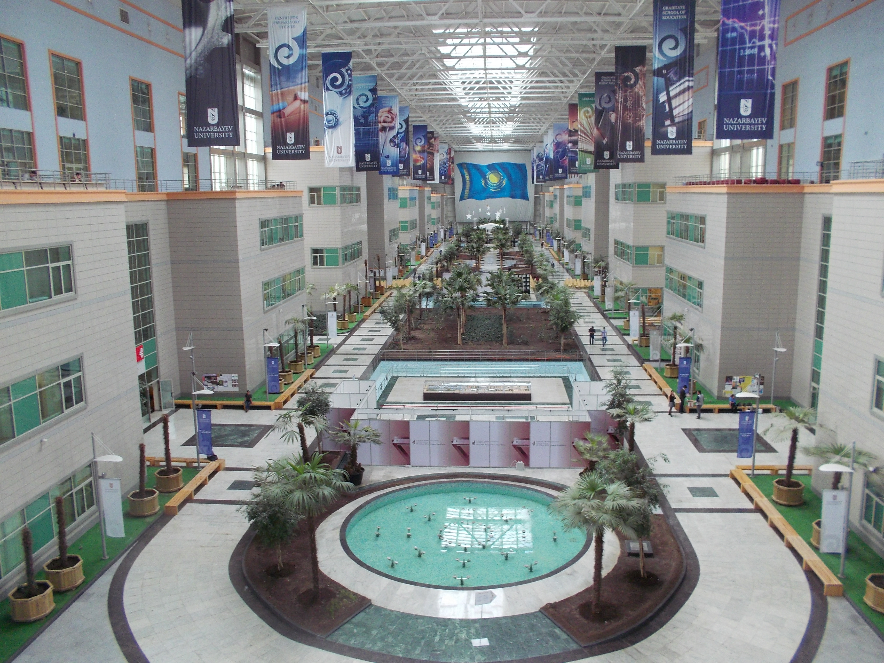 Nazarbaev University Nur-Sultan